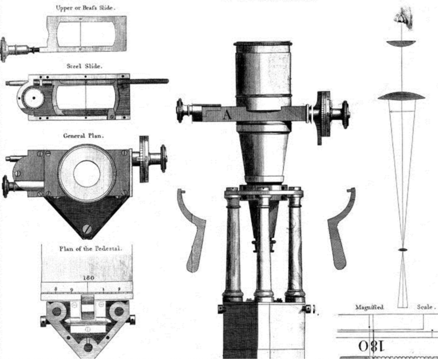 Detail of the microscopes of the three foot theodelites manufactured by Jesse Ramsden. Image published in "An Account of the Trigonometrical Operation, Whereby the Distance between the Meridians of the Royal Observatories of Greenwich and Paris Has Been Determined. By Major-General William Roy" (January 1, 1790). Now available at . The illustration is from Plate VI. (The plates are at the end of the bound volume but Plate VI is at page 214 of the PDF file.) The full text description is on true pages 135-160 corresponding to pages 28-53 of the PDF file